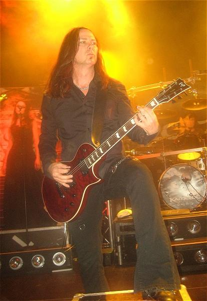 Thomas Youngblood live in London 29.03.09